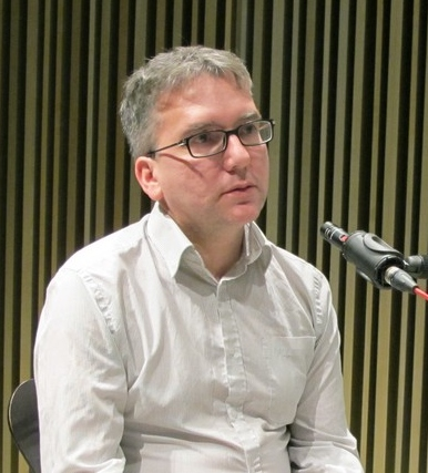 Fisher at the Barcelona Museum of Contemporary Art in 2011